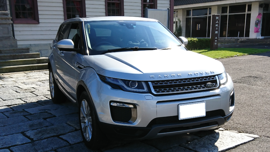 RangeRover 2016Year HSE